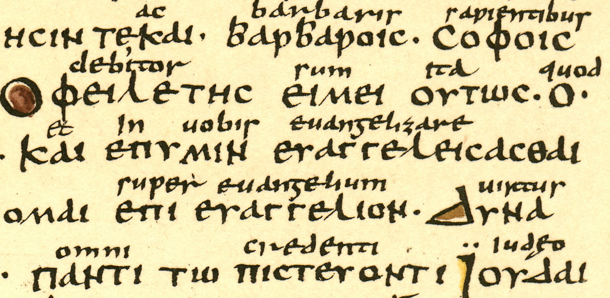 Fragment of Codex Boernarianus with text of Romans 1:15